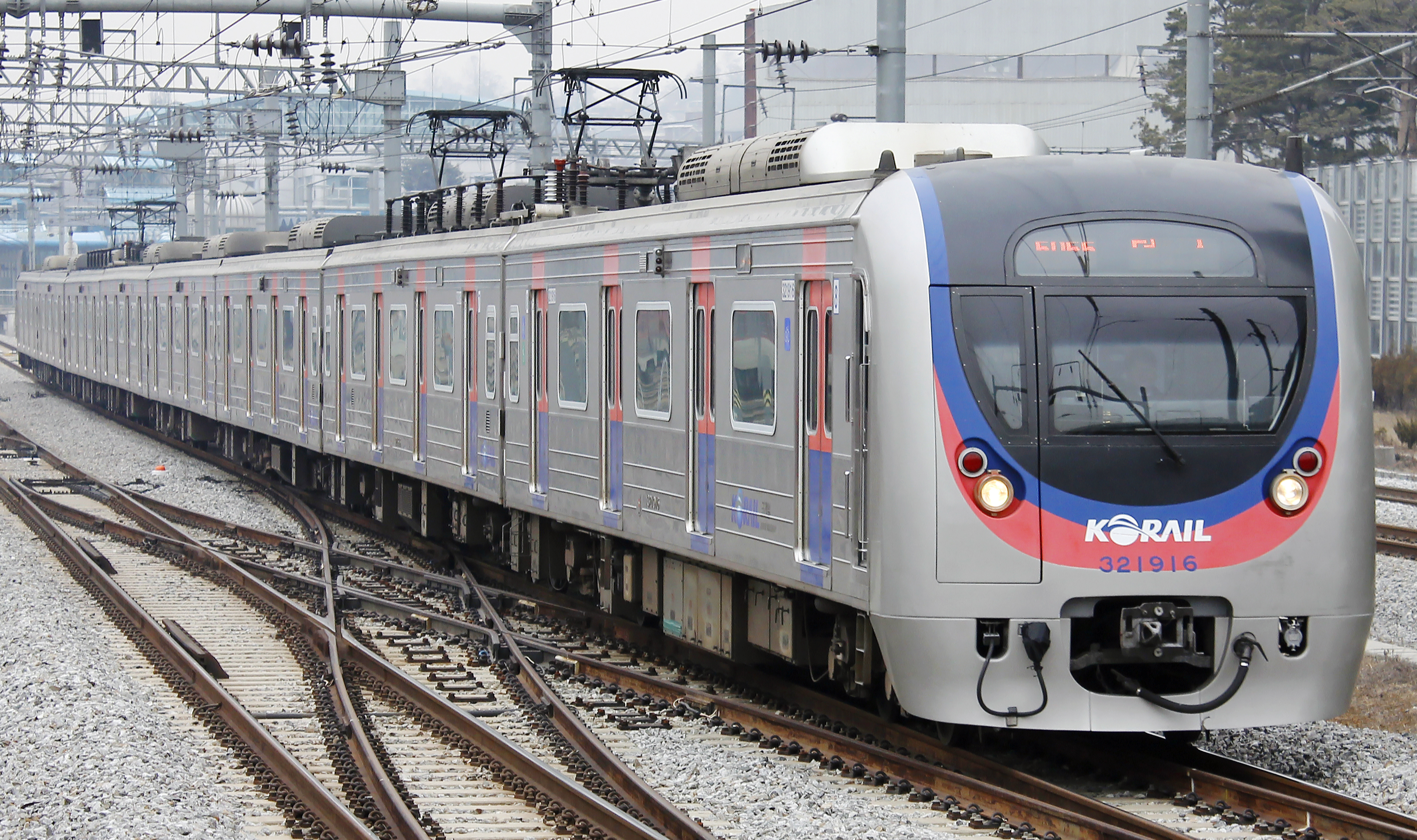 Korail EMU 321X16(Front)